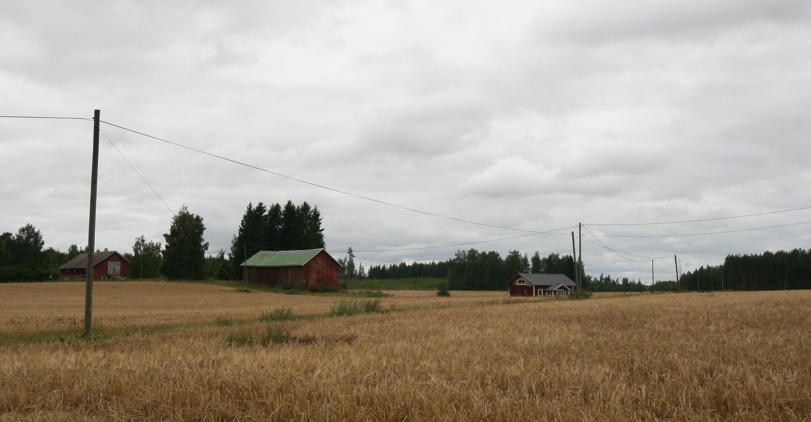 Tietävälä village, Orimattila, Finland